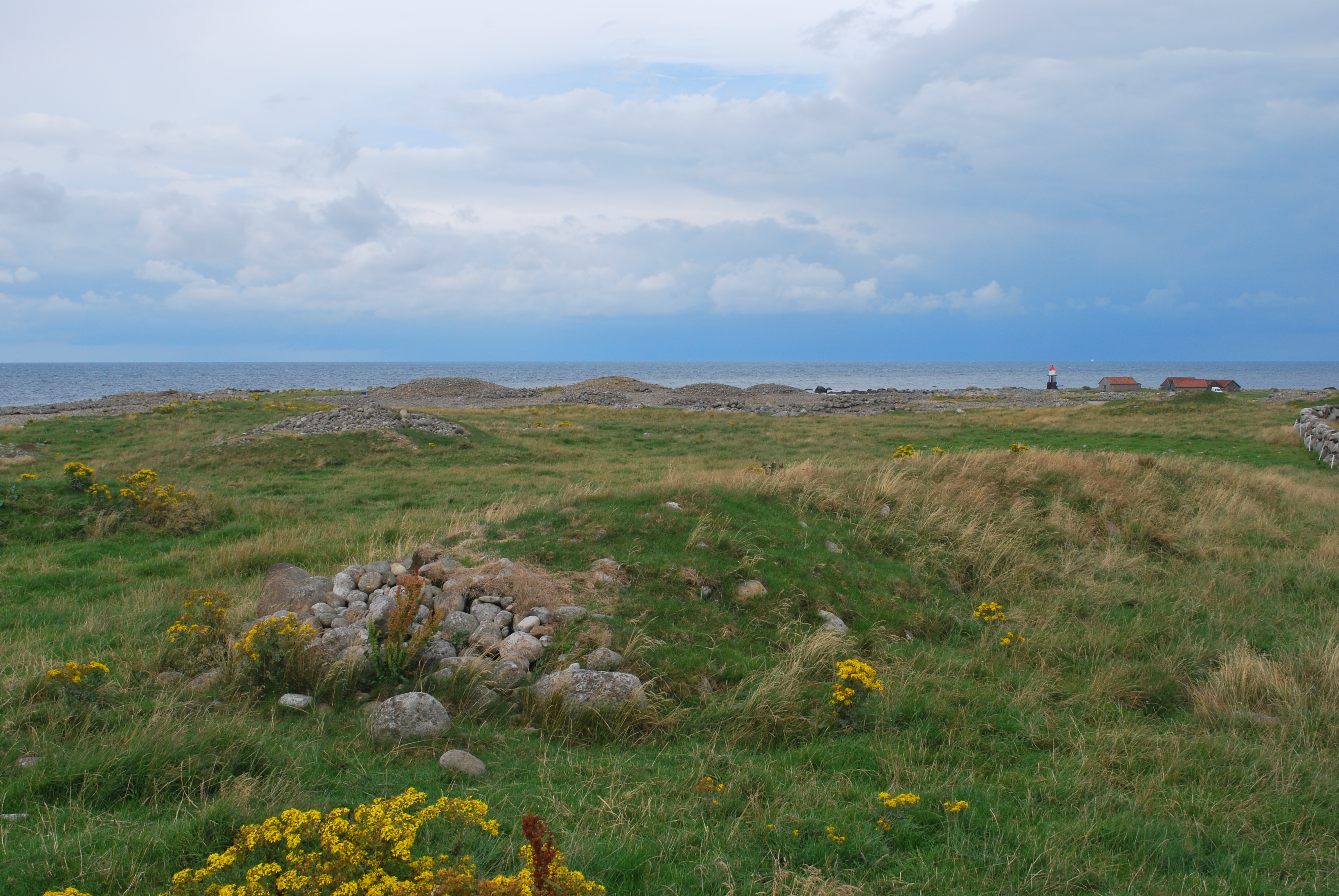 Beach graves, AD 500-600, Hå, Jæren, Norway